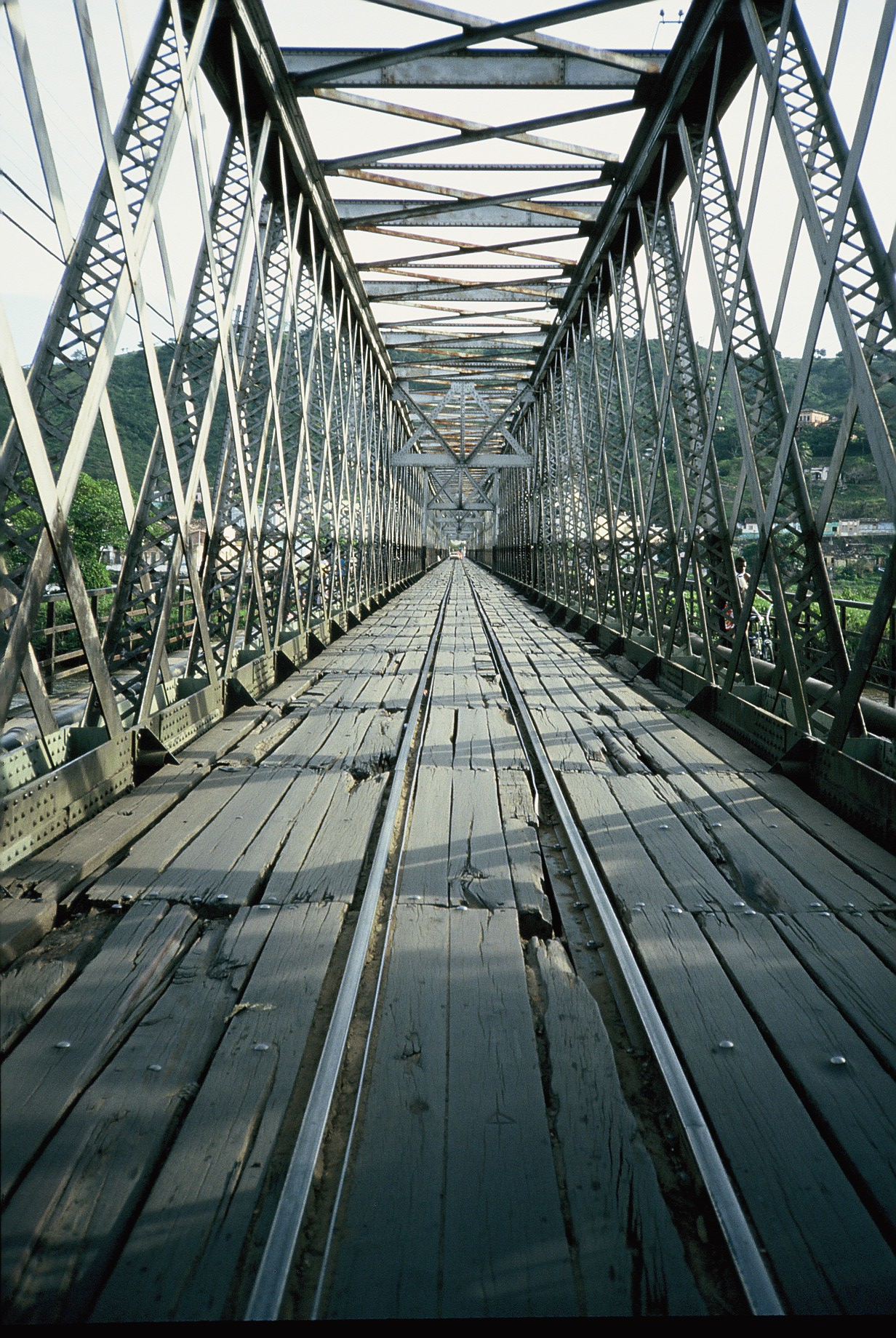 Bridge in Cachoeira, Bahia, Brazil